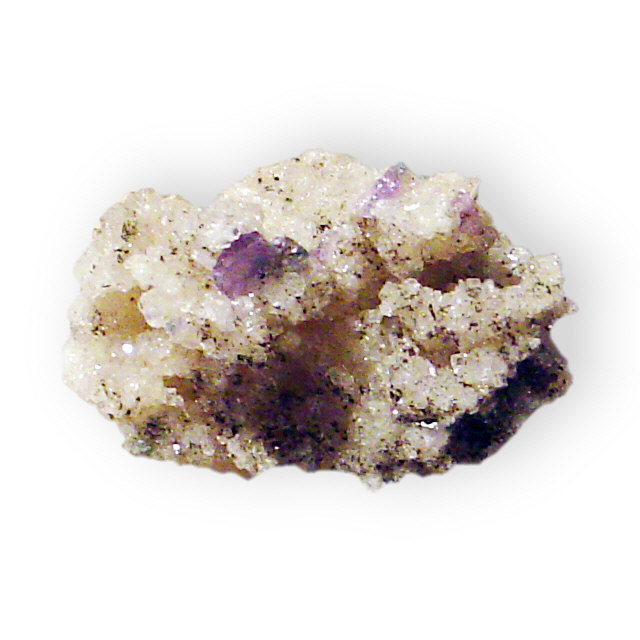 These mineral images are free to use how you wish.